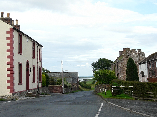 Eastern end of Drumburgh Village The road slopes down towards Easton Marsh.